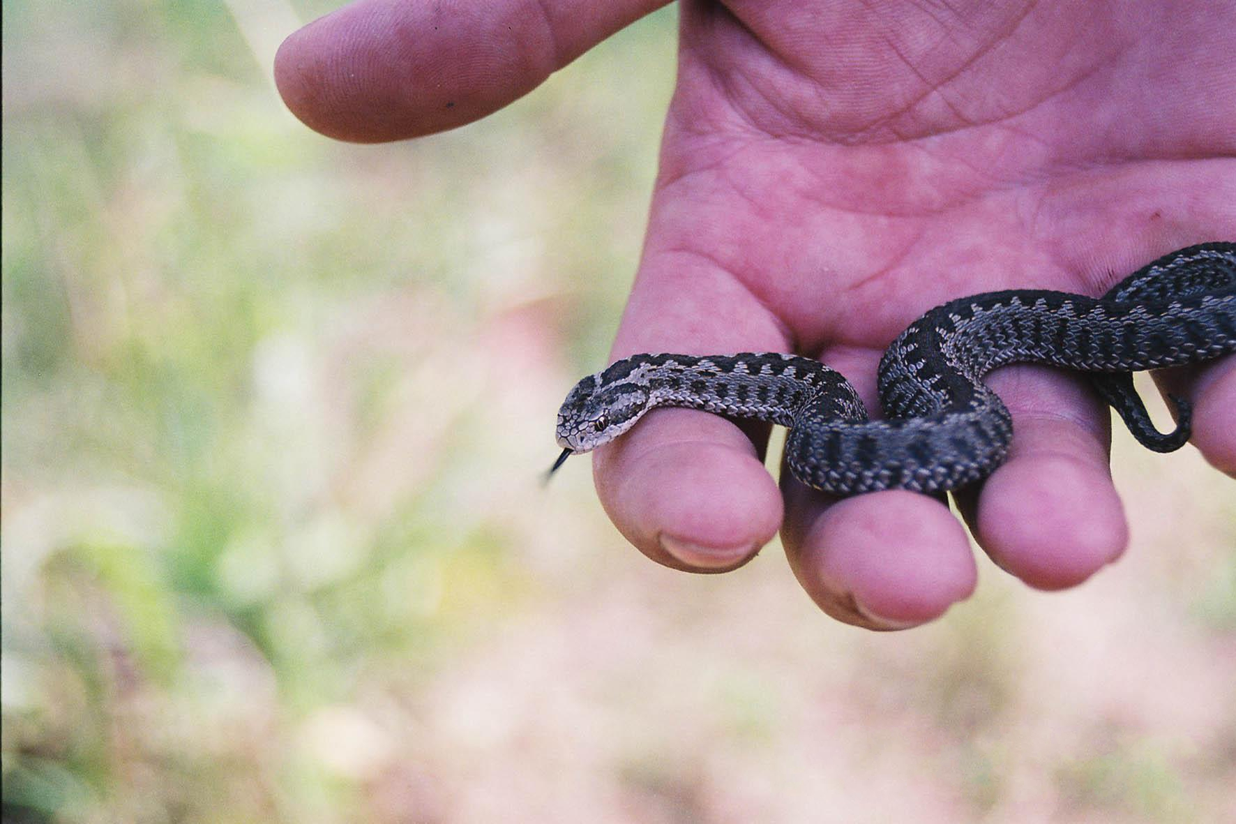 Juvenile Vipera ursinii